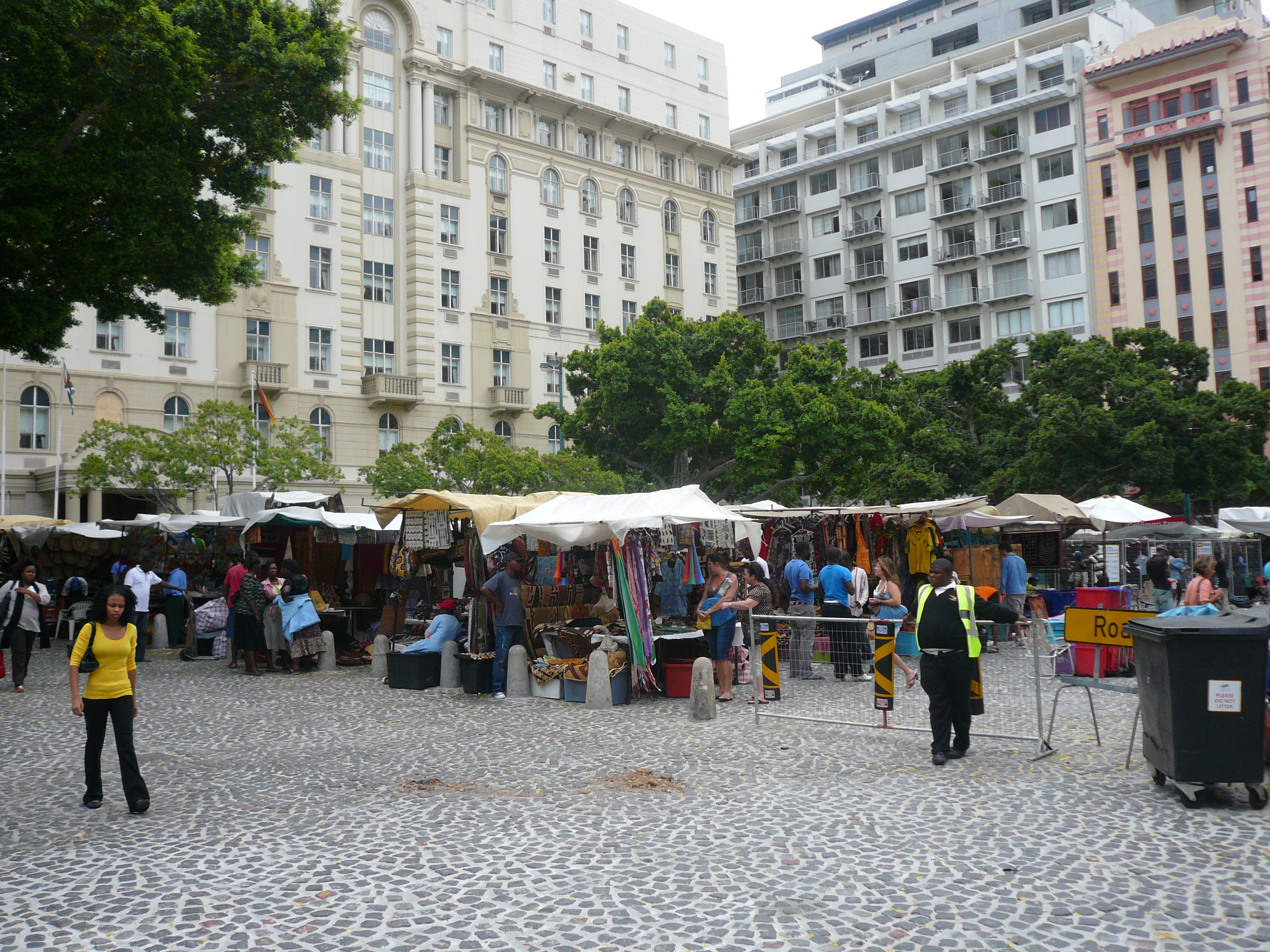 Greenmarket Square in Cape Town, South Africa as seen from the corner of Burg St & Longmarket St.